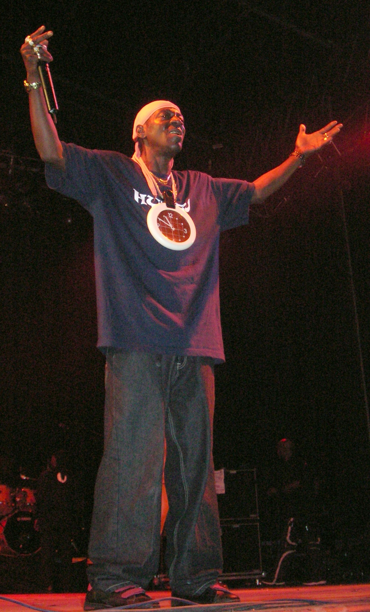 Flavor Flav, from Public Enemy, acting live at the Bilbao Urban Musikaldia, at Vista Alegre bullring.